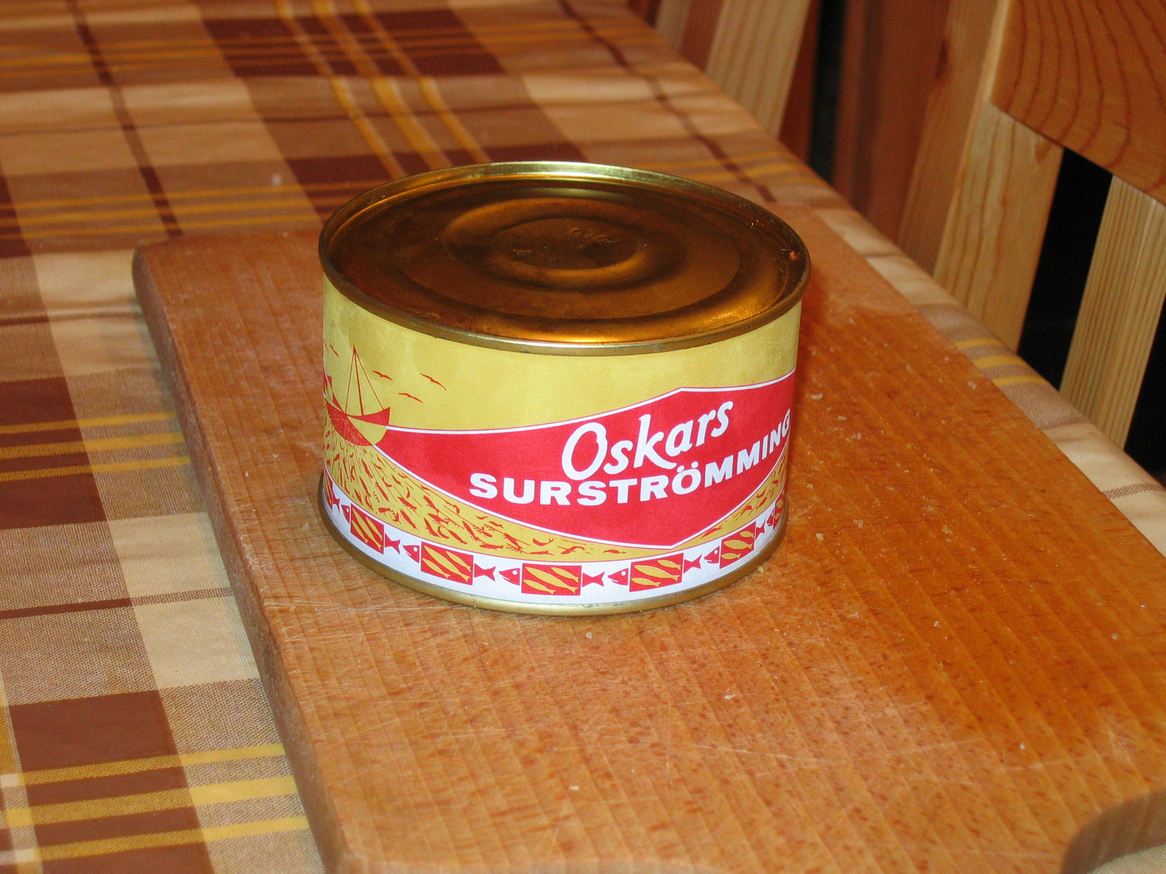 a picture of closed surstromming (sour herring)